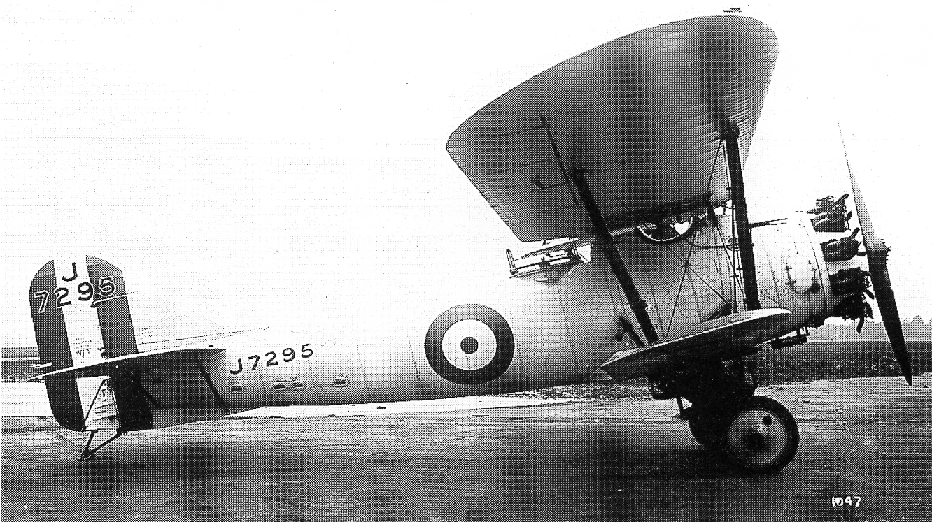 Short Chamois, June 1927. The first Short Springbok II modified.